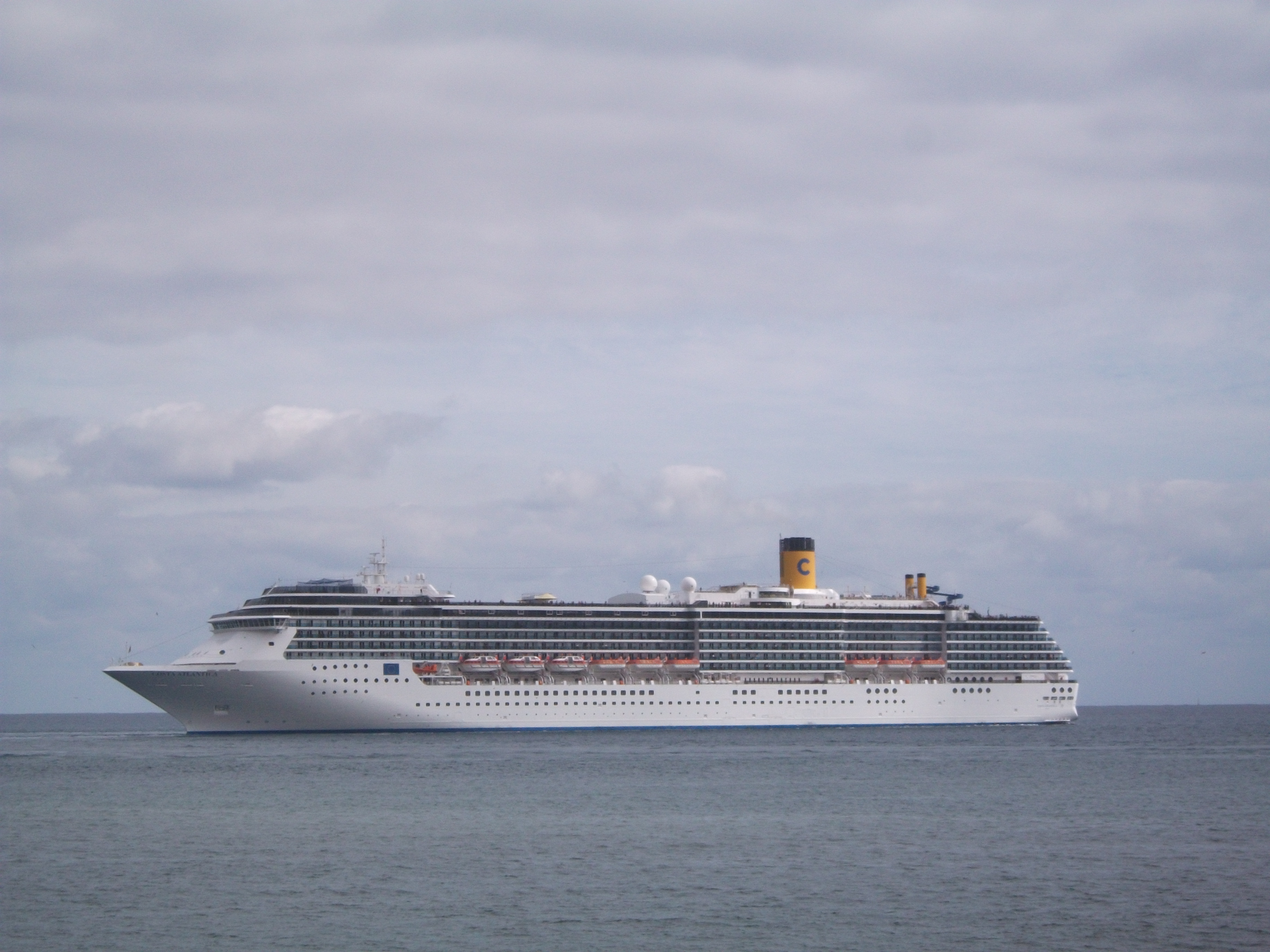 Costa Atlantica, in Funchal, Madeira, Portugal